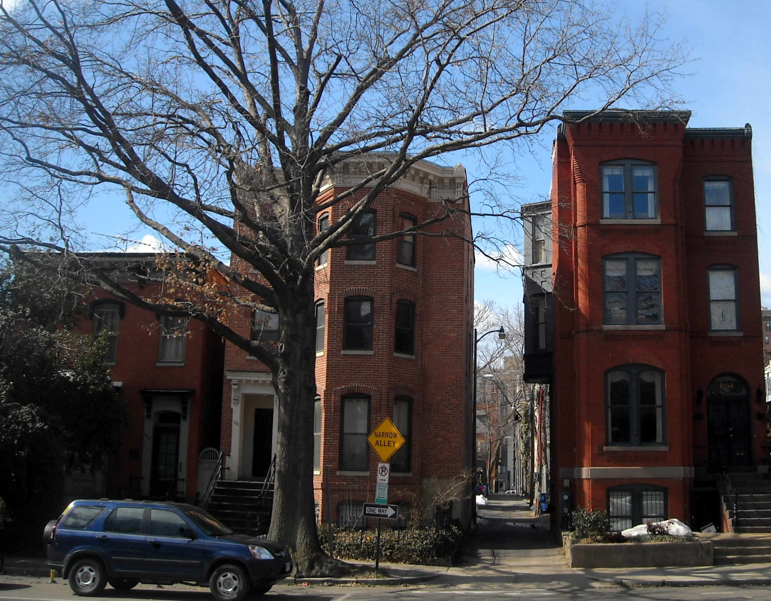 Row houses located at 1530–1534 15th Street, N.W., in the Logan Circle neighborhood of Washington, D.C. The former residence of Alma Thomas is on the left-hand side. It was listed on the National Register of Historic Places (NRHP) in 1987. The former residence of Mary Jane Patterson is the center building. Built in 1875 (left), 1880 (center), and 1892 (right), the Italianate and Queen Anne-style homes are designated as contributing properties to the Greater Fourteenth Street Historic District, listed on the NRHP in 1994.